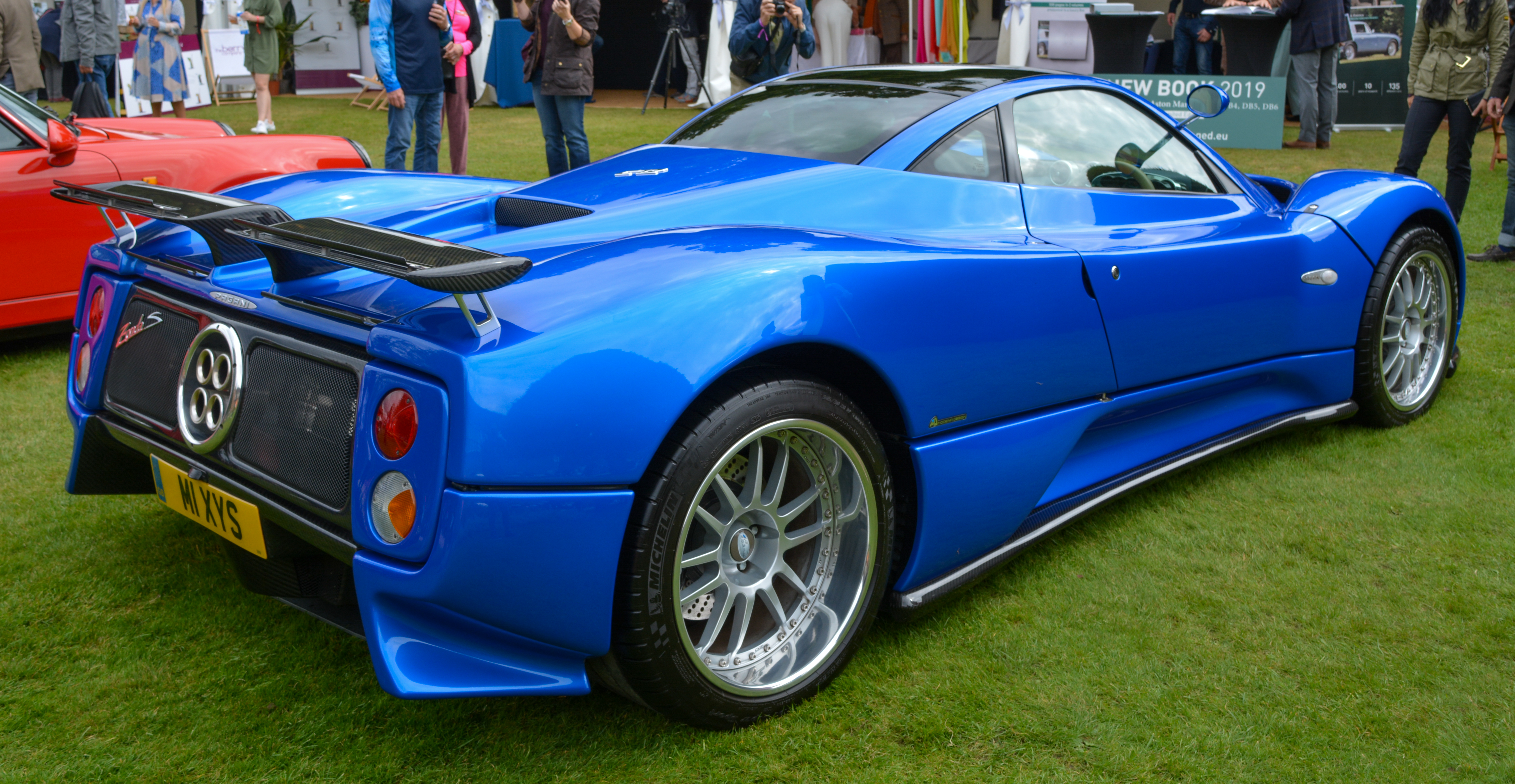 2003 Pagani Zonda C12 S 7.3 Rear Taken at the Concours d'Elegance Hampton Court 2019